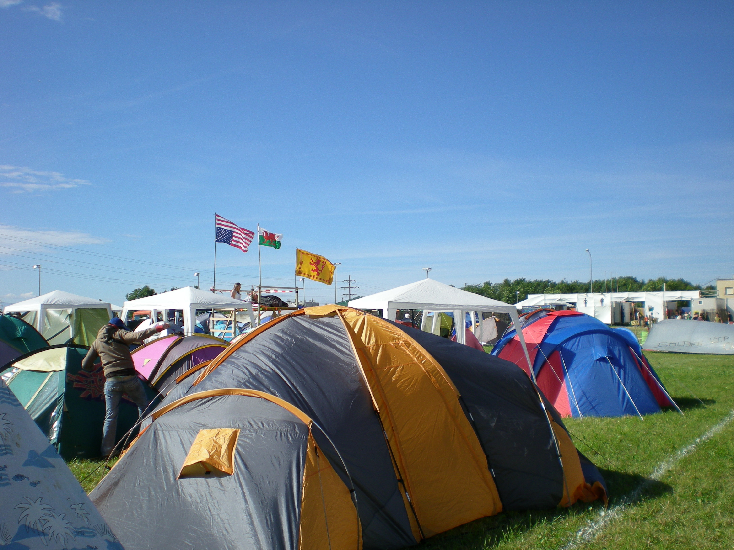 Camping Festival Nyon 2008